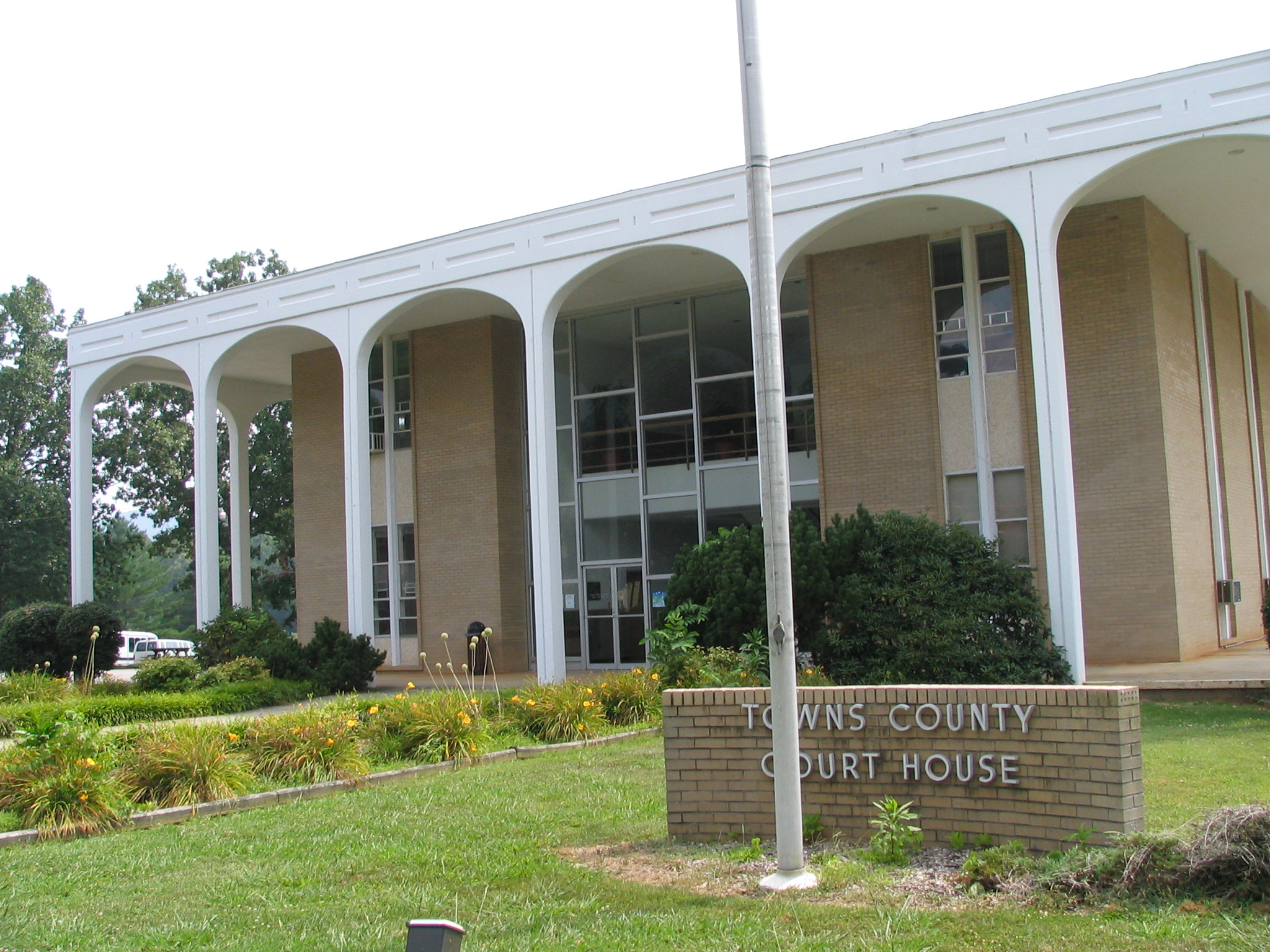 Towns County courthouse in Hiawassee, Georgia